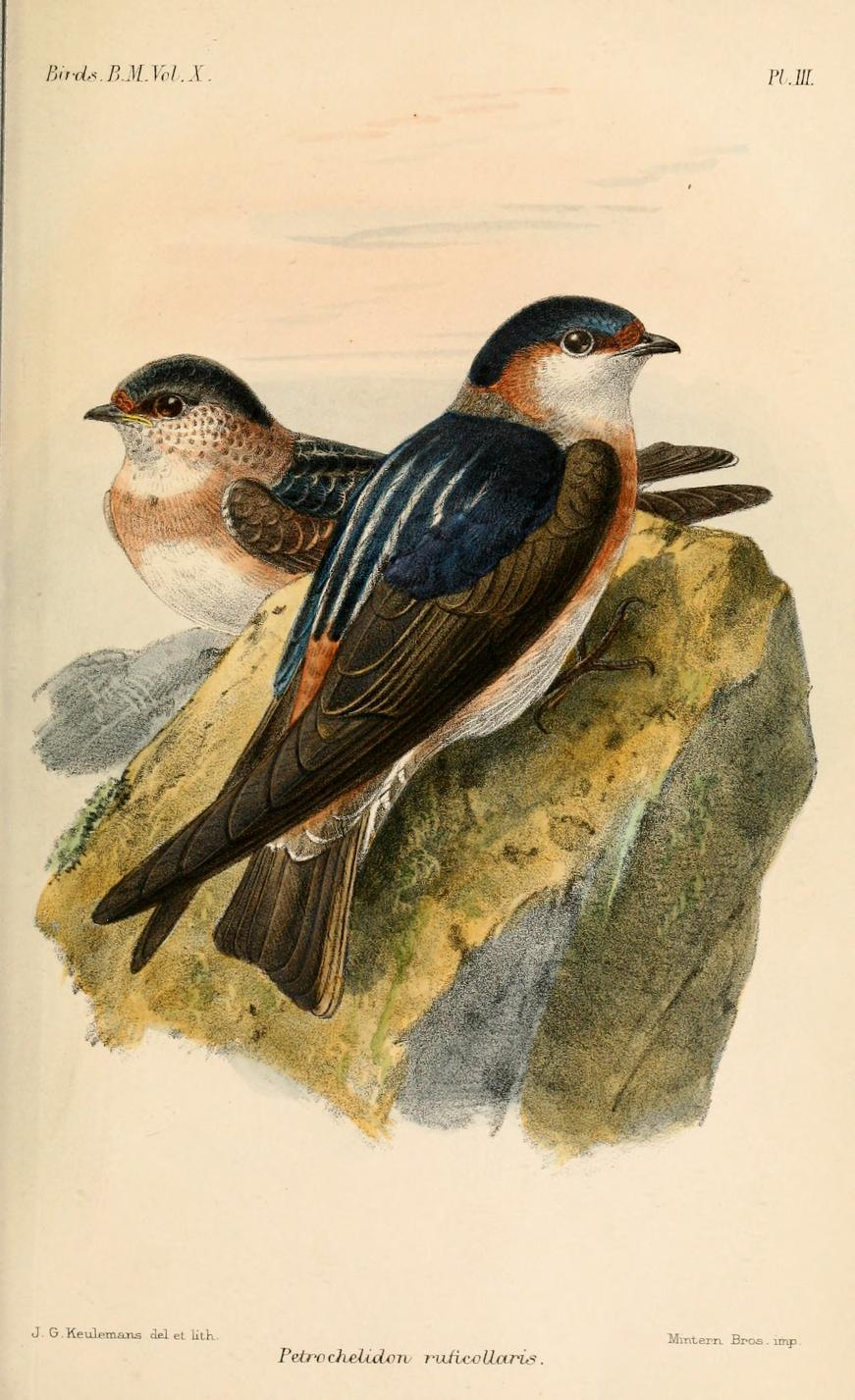 Petrochelidon ruficollaris = Petrochelidon rufocollaris, Chestnut-collared Swallow